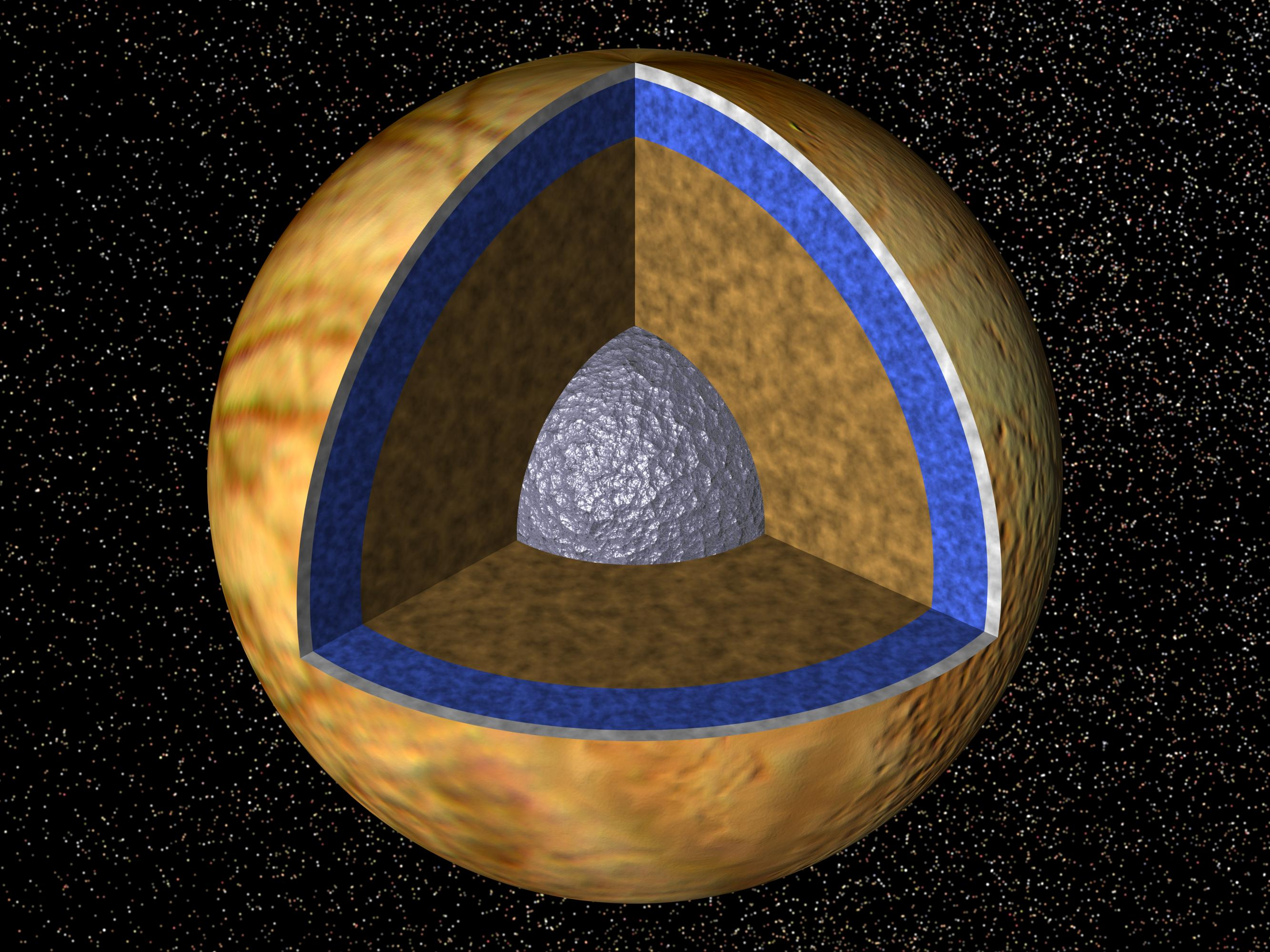 Interior of Europa original description: Cutaway view of the possible internal structure of Europa The surface of the satellite is a mosaic of images obtained in 1979 by NASA's Voyager spacecraft. The interior characteristics are inferred from gravity field and magnetic field measurements by NASA's Galileo spacecraft. Europa's radius is 1565 km, not too much smaller than our Moon's radius. Europa has a metallic (iron, nickel) core (shown in gray) drawn to the correct relative size. The core is surrounded by a rock shell (shown in brown). The rock layer of Europa (drawn to correct relative scale) is in turn surrounded by a shell of water in ice or liquid form (shown in blue and white and drawn to the correct relative scale). The surface layer of Europa is shown as white to indicate that it may differ from the underlying layers. Galileo images of Europa suggest that a liquid water ocean might now underlie a surface ice layer several to ten kilometers thick. However, this evidence is also consistent with the existence of a liquid water ocean in the past. It is not certain if there is a liquid water ocean on Europa at present.